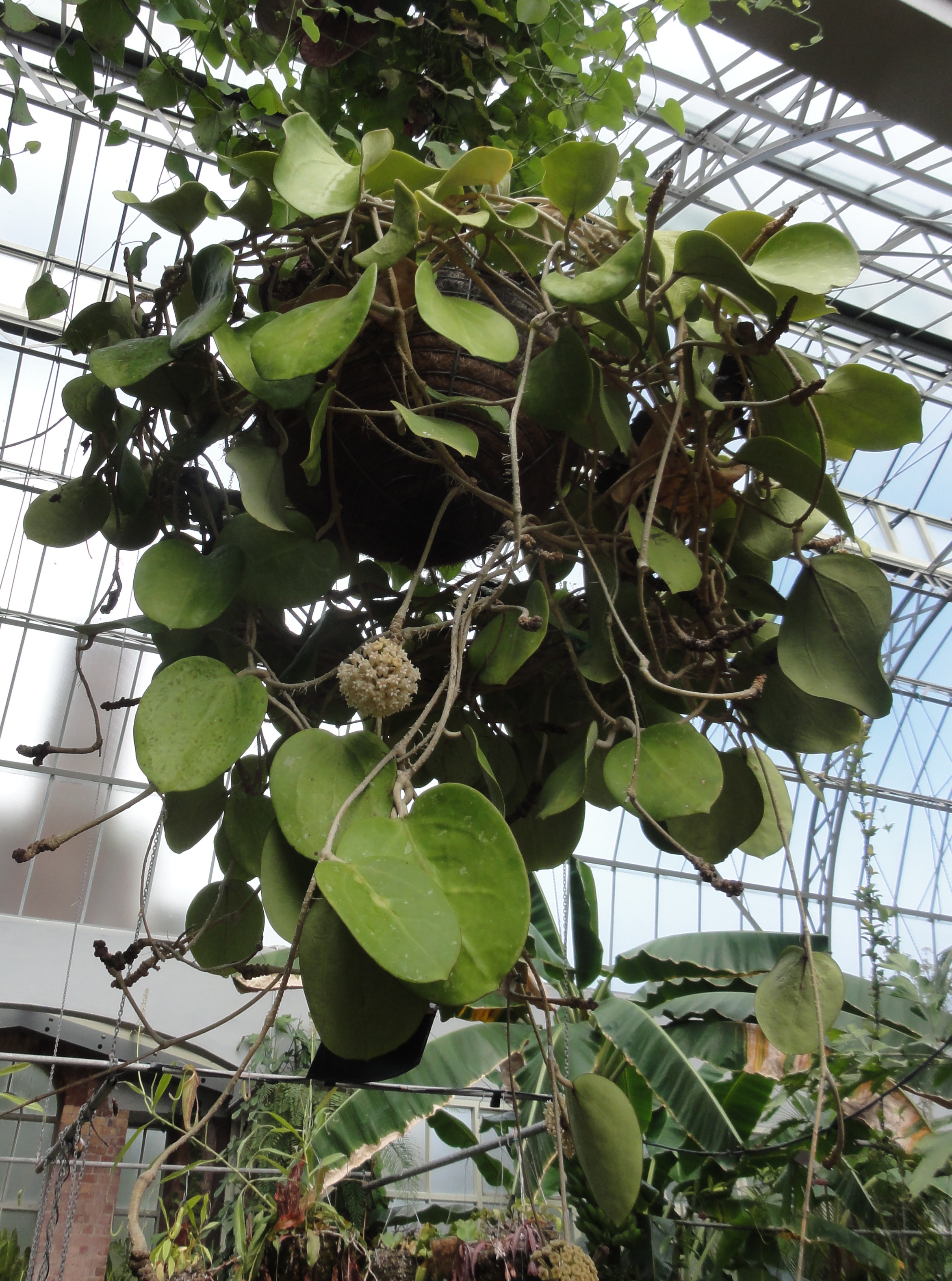 Hoya loyceandrewsiana, Auckland Winter Garden